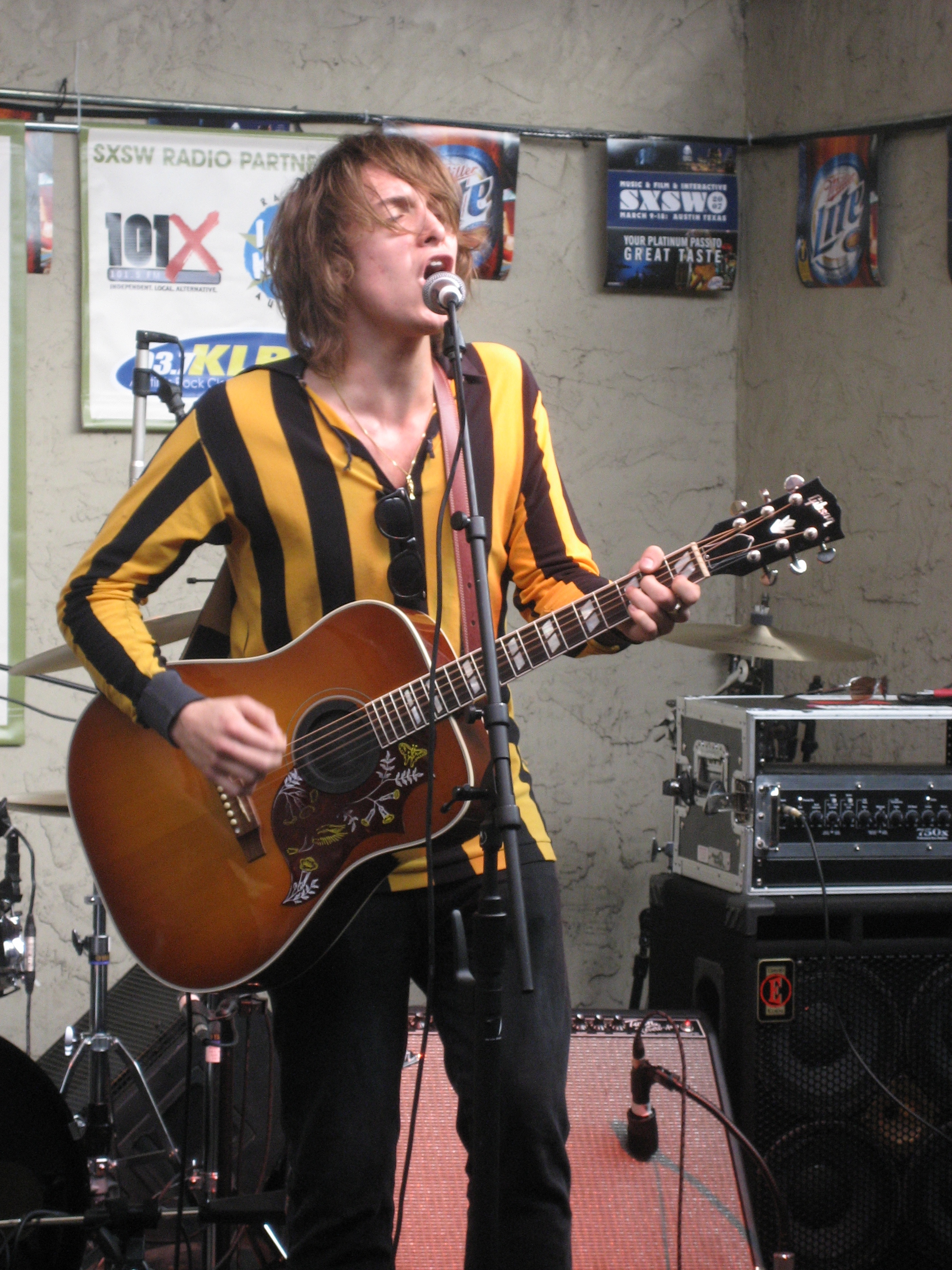 Paolo Nutini